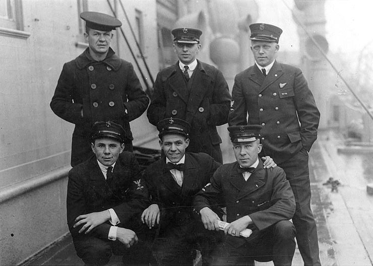 British airship R-38 (U.S. Navy ZR-2) Six U.S. Navy Petty Officers "sail to speed up work on the R-38. ... The R-38 is nearing completion in England and is to be flown to her hangar at Lakehurst, N.J." (quoted from the original caption). They are on board the passenger liner Princess Matoika (formerly USS Princess Matoika) for the trip to England. These men are identified in the original caption as: left to right, front: J.W. Cullinan, M. Lay and I.L. Thomas. left to right, standing: N. Julnis (sic. ?), A.B. Galation and H. Christensen. Chief Boatswain's Mate M. Lay and Chief Machinist's Mate W.A. Julius were among those who lost their lives when the R-38 crashed on 24 August 1921. U.S. Naval Historical Center Photograph.